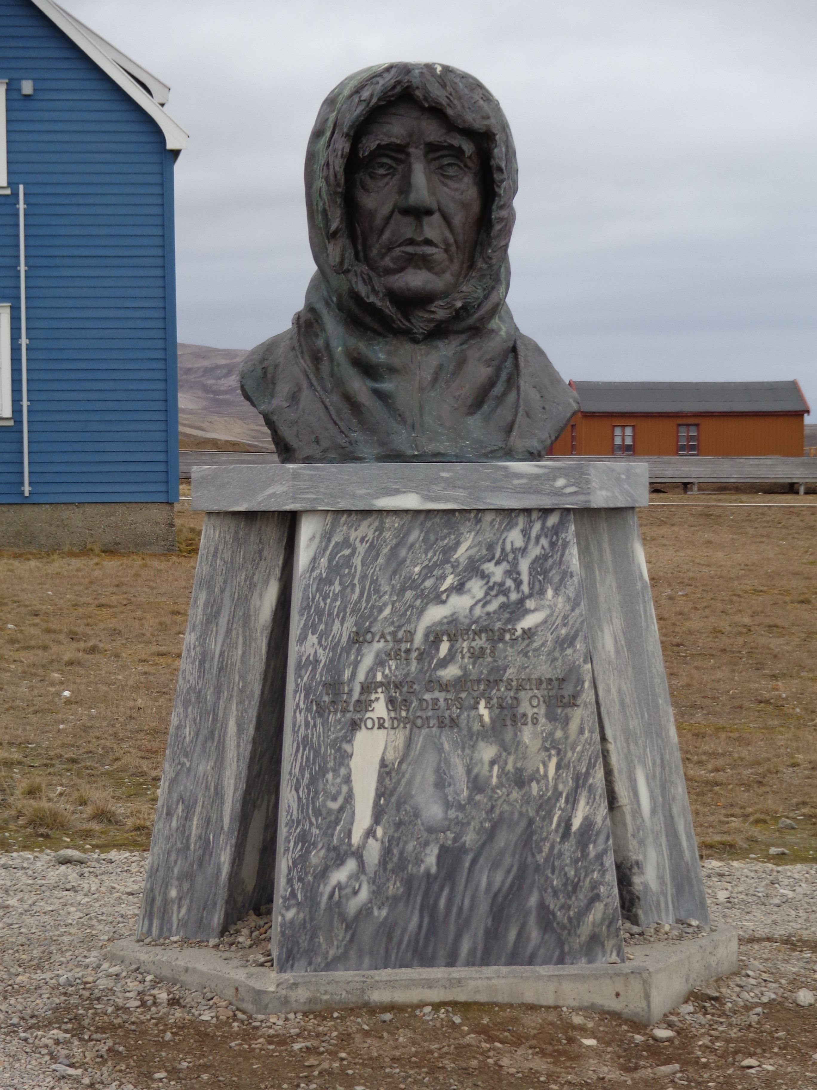 Monument to Amundsen, Ny-Alesund